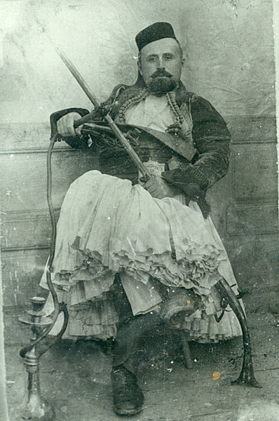 IMARO revolutionary/ies